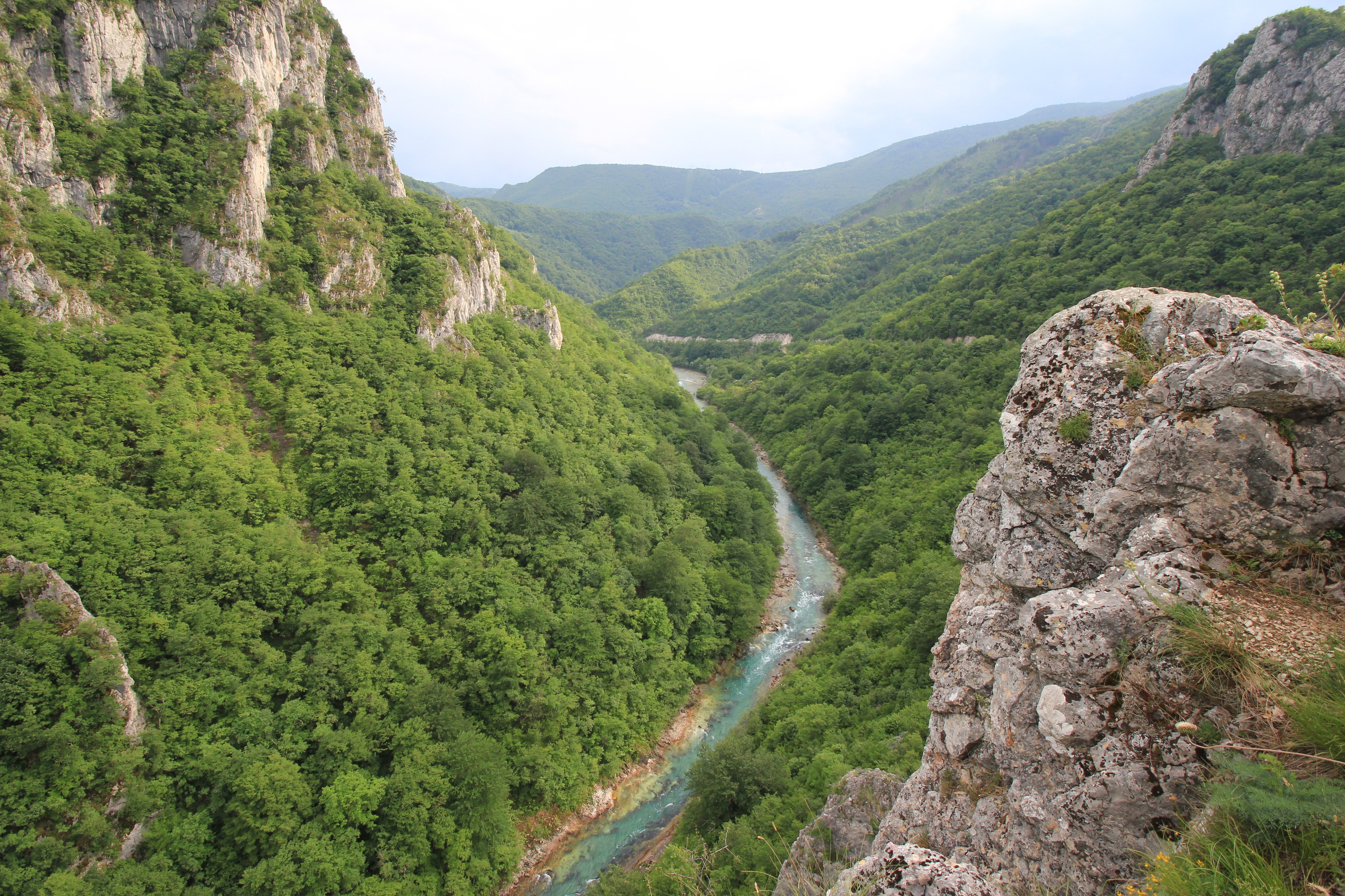 Upper Neretva near Šištica confluence.